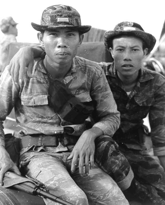 Civilian Irregular Defense Group soldiers Chau and Loi on board the 82-foot U.S. Coast Guard Cutter POINT GREY on the eve of the pre-dawn raid launched on VC territory at the north end of Phu Quoc Island by Coast Guard Division 11 and U.S. Army Special Forces on Phu Quoc.